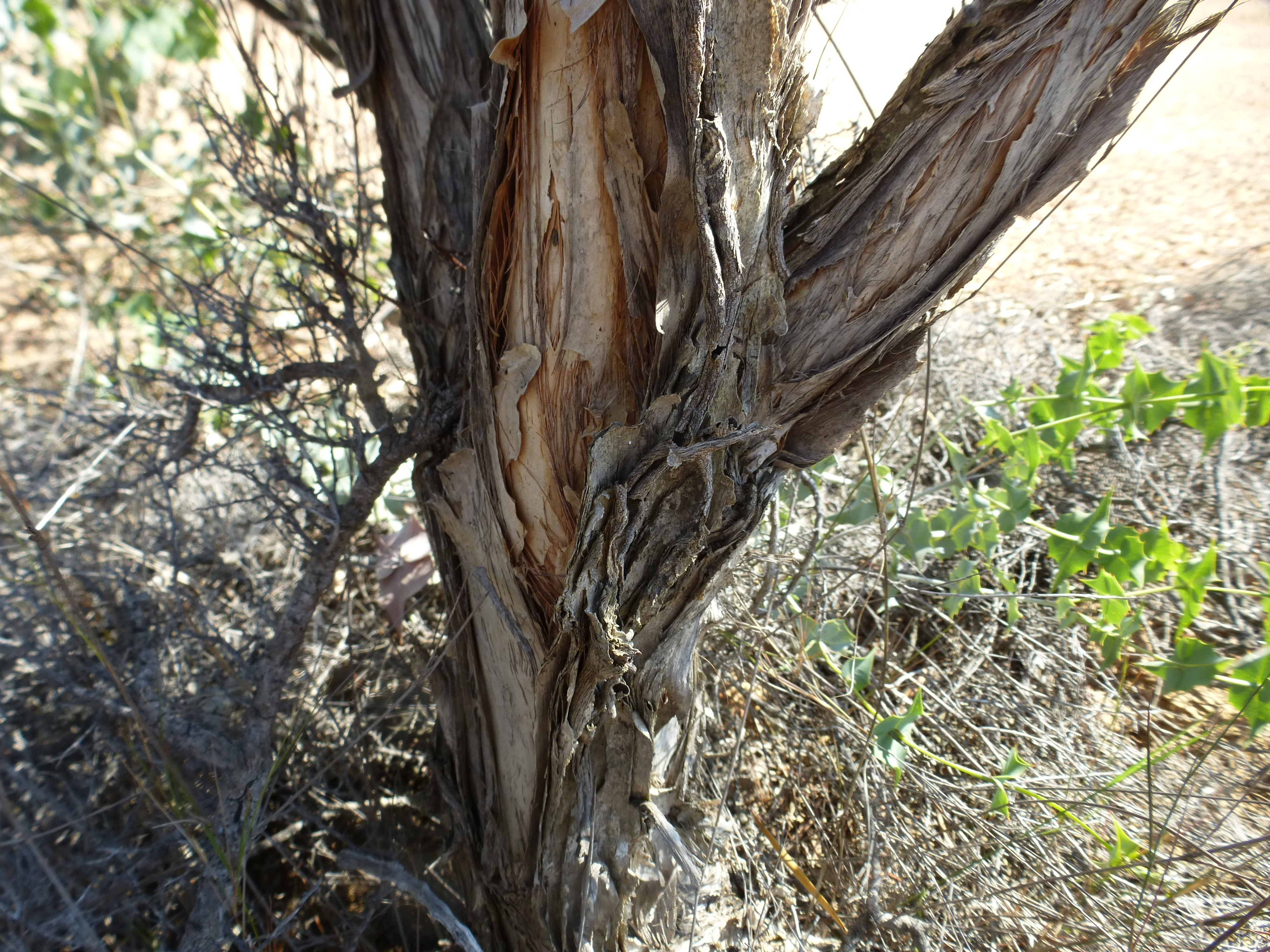 Melaleuca scalena growing along Bees Road near Babakin